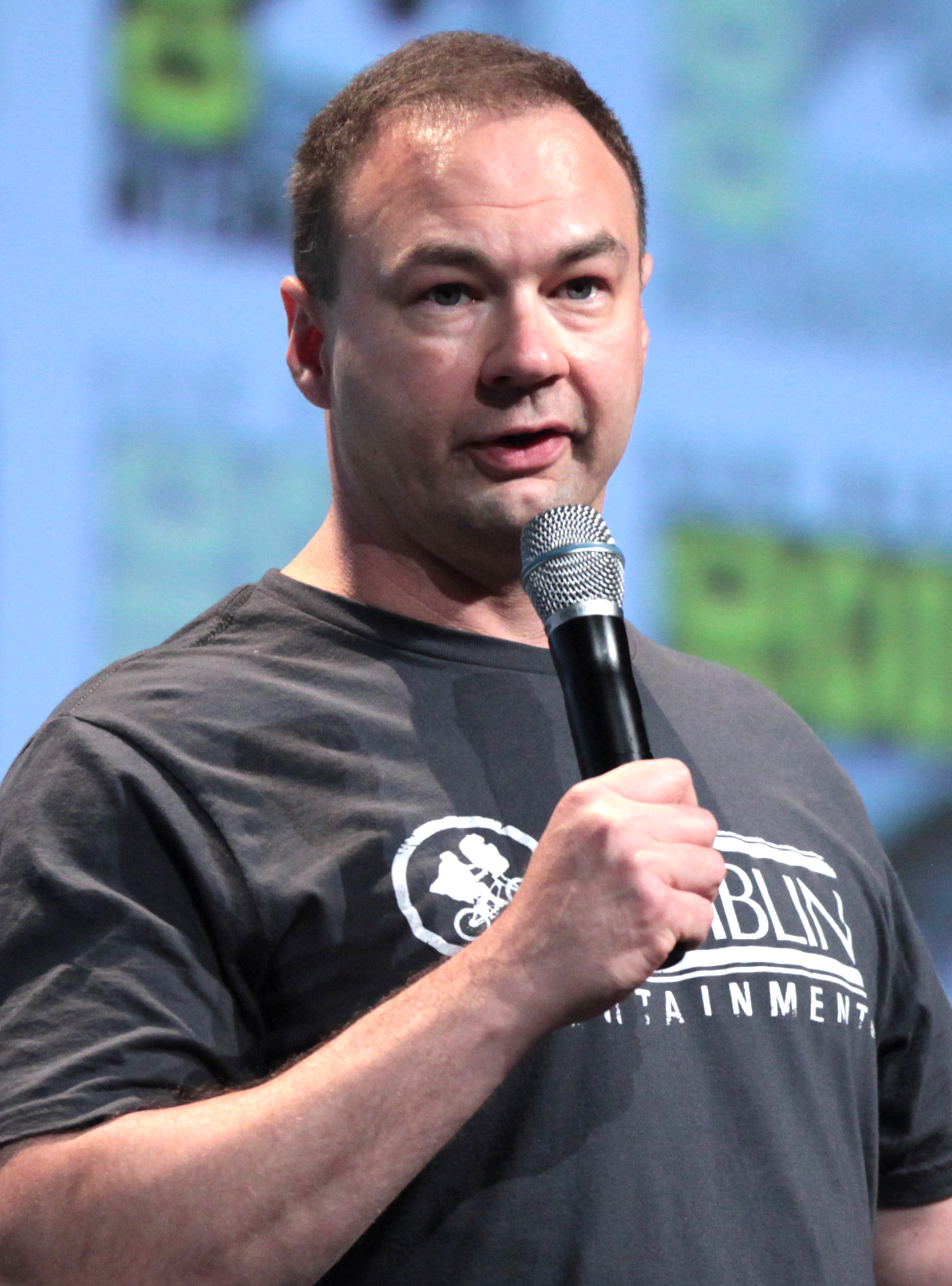 Thomas Tull speaking at the 2015 San Diego Comic Con in San Diego, California.